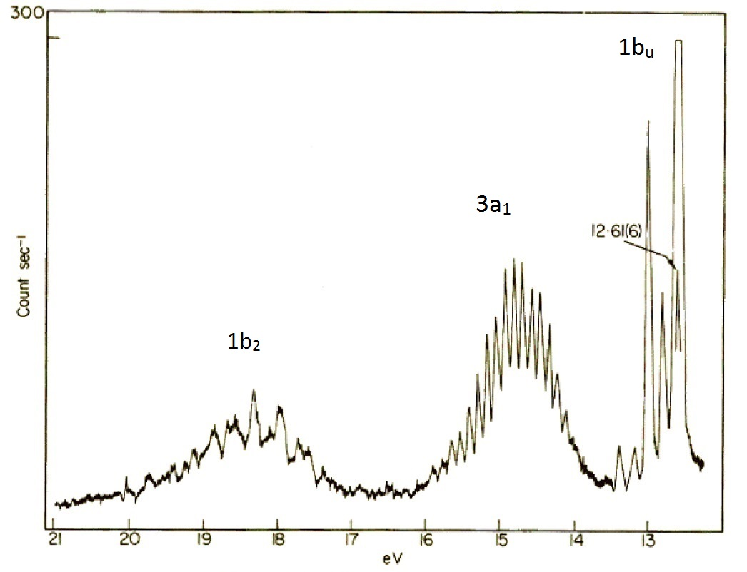 H2O PES